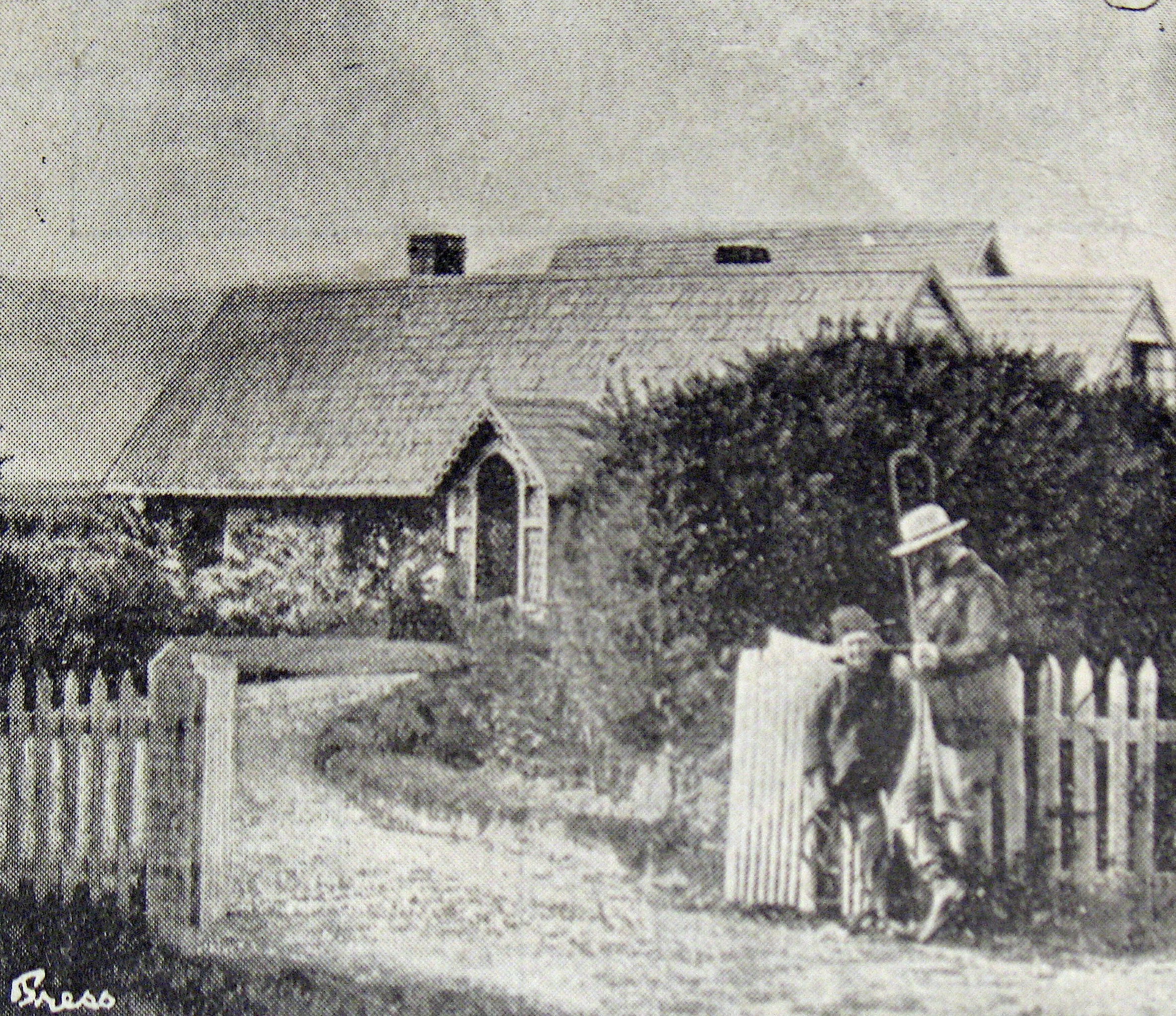 John Edward FitzGerald photographed with his oldest son at Springs Station, Canterbury, by Dr Alfred Charles Barker, between 1858 (the date of Barker's earliest photographs) and 1867 (when FitzGerald left for Wellington).